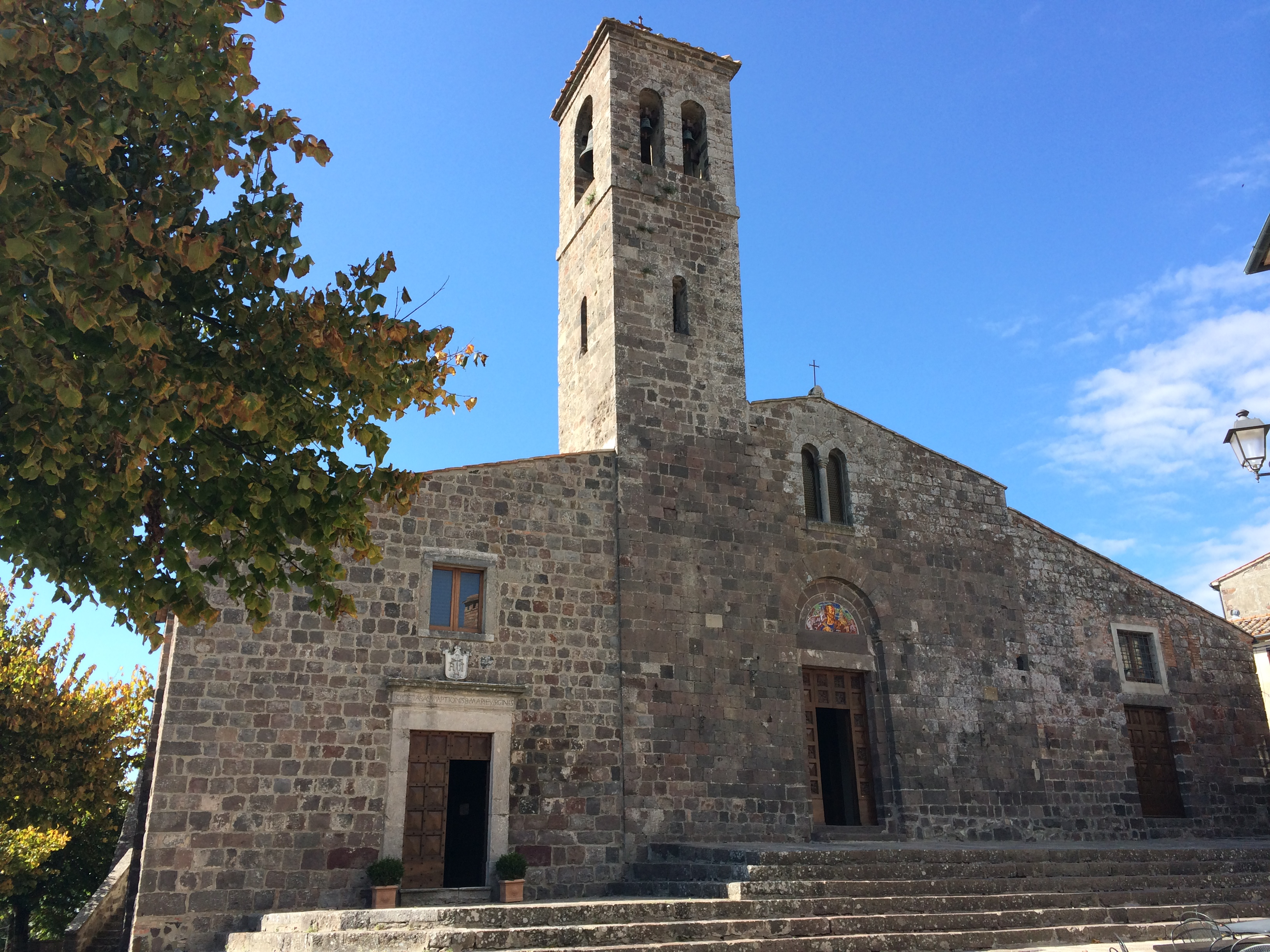 St.Peter's church